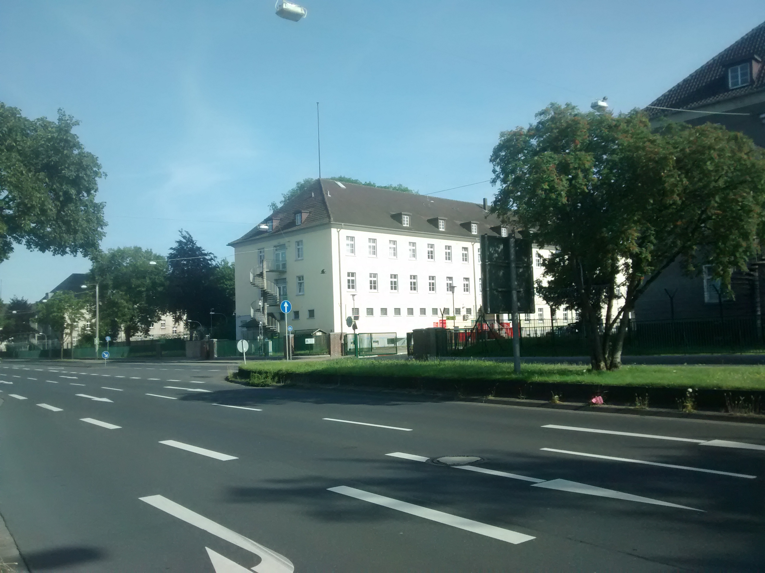 British Forces Germany (www-bfgnet-de) are posessing a former german military building. 2019 they planningly want to leave.